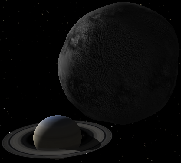 An artist's impression of Themis, hypothetical moon of Saturn